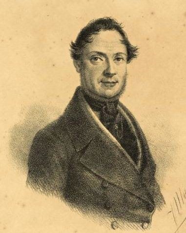 Contemporary portrait of Italian composer Nicola Vaccai (1790-1848)